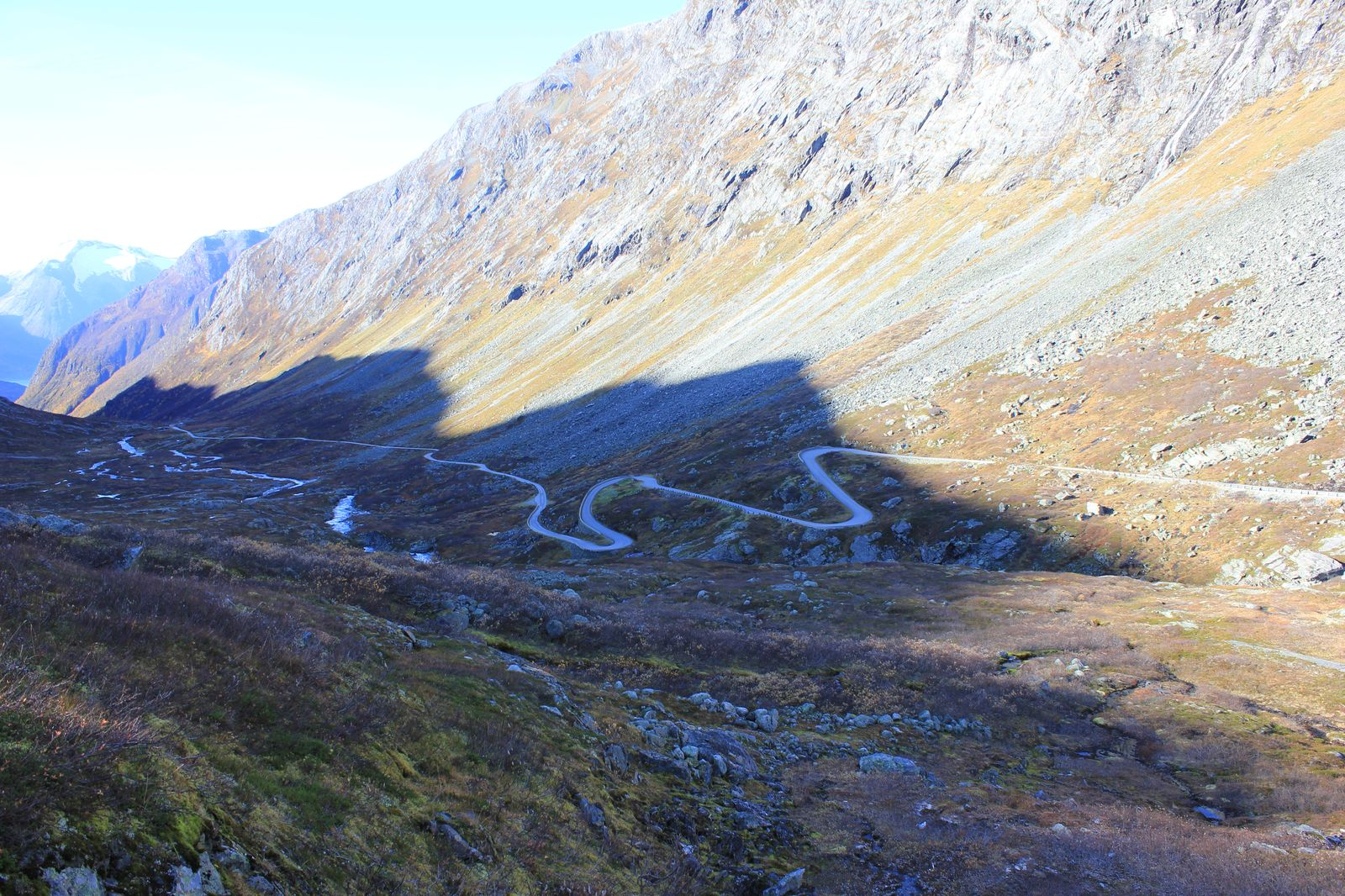 The old Strynefjell road